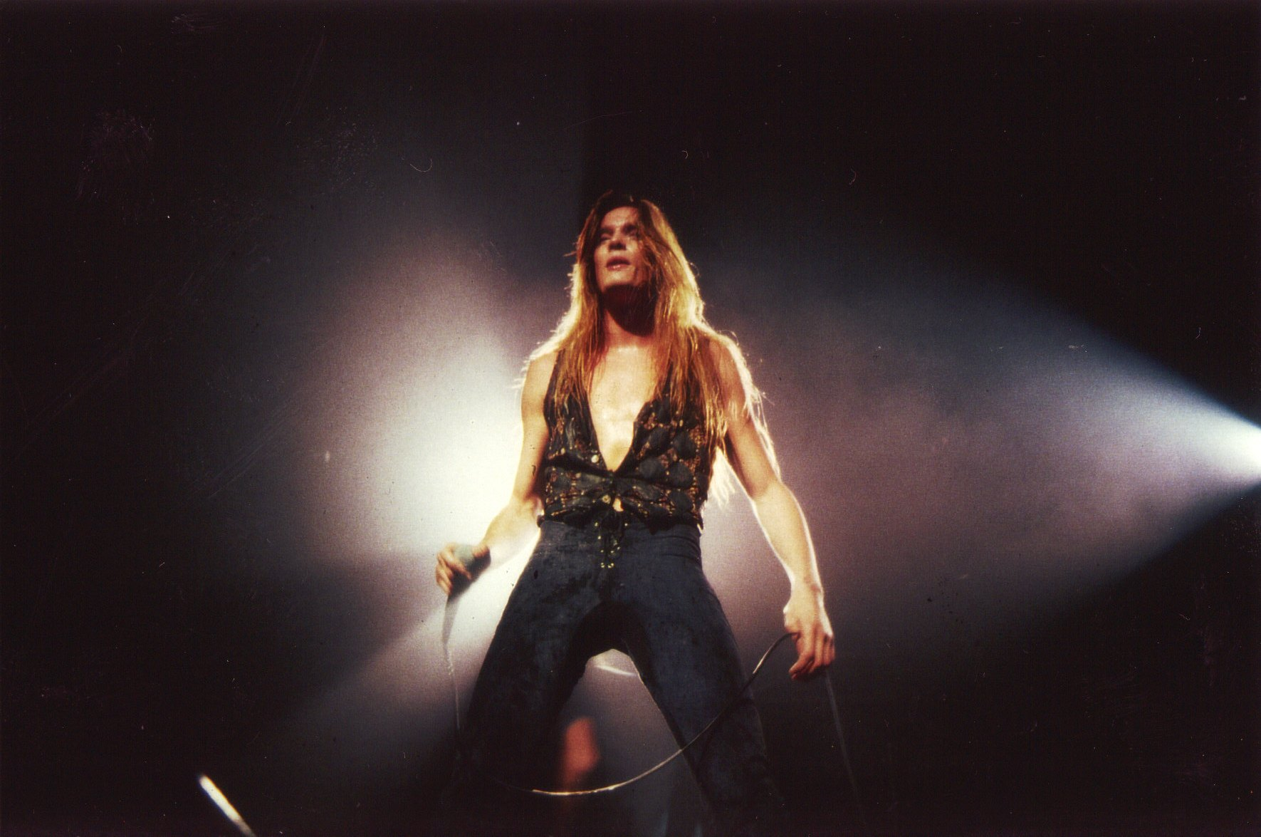 SKID ROW + Special Guest Love/Hate. Zénith de Paris, France. November 18 1991.